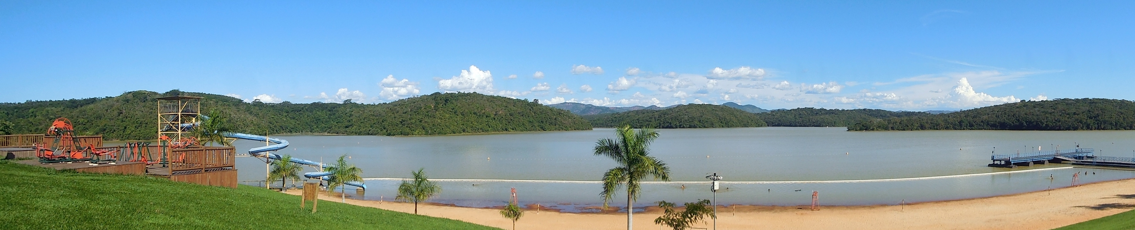 Panoramic view of the Silvana Lake, in Caratinga, Minas Gerais, Brazil.